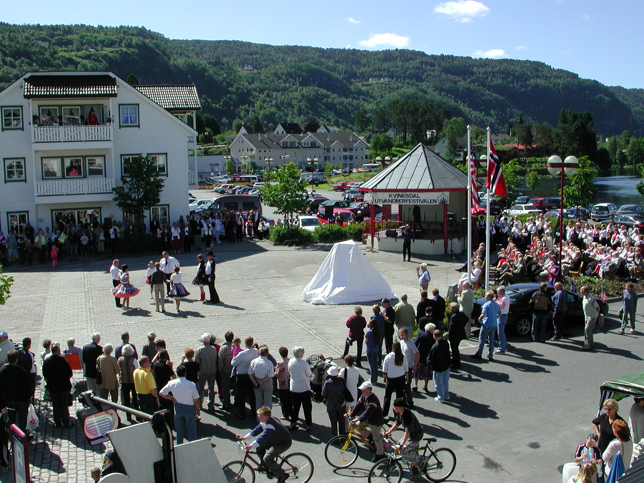 Kvinesdal celebrating the Emigration festival